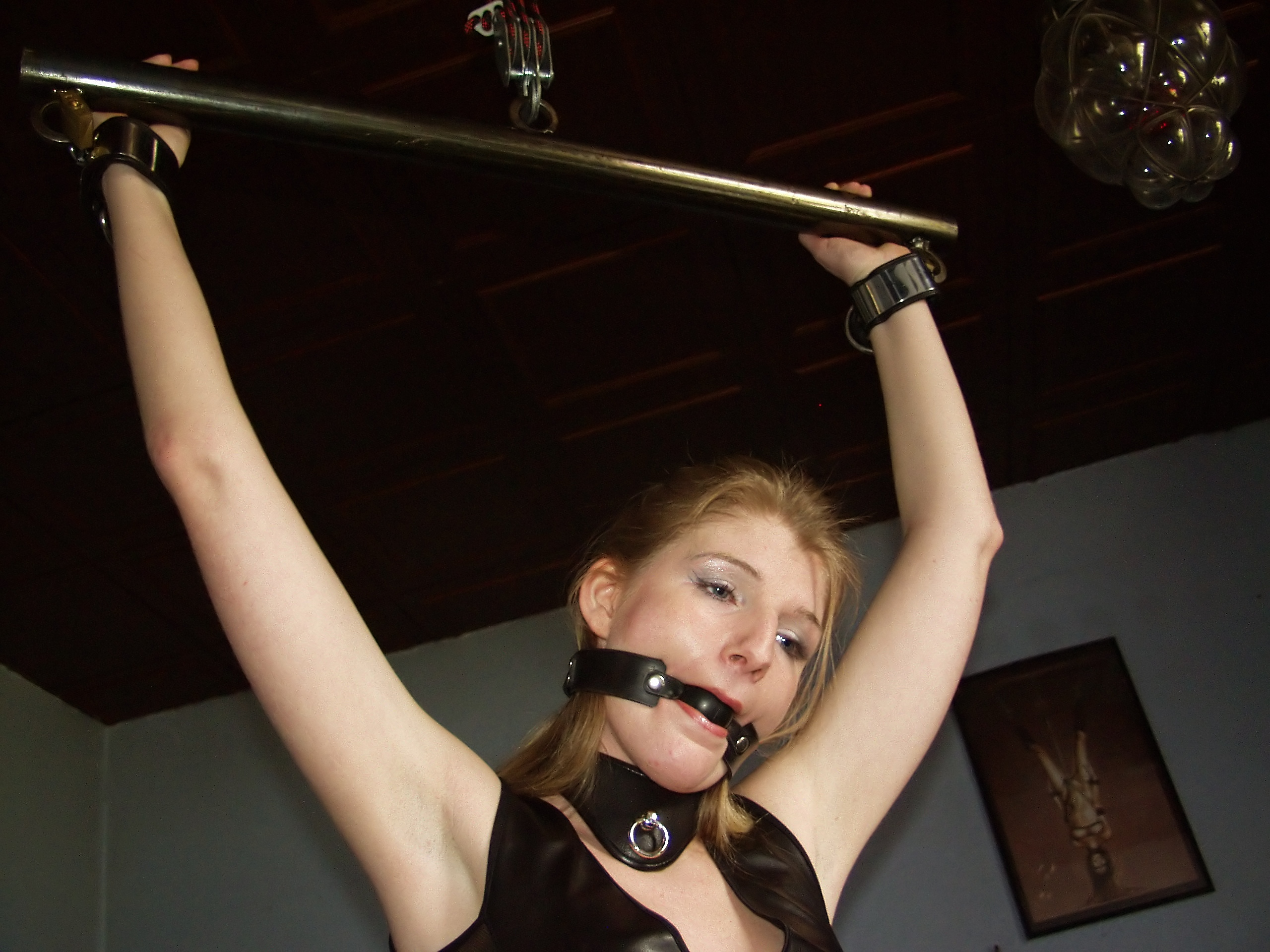 Slave bound with spreader bars